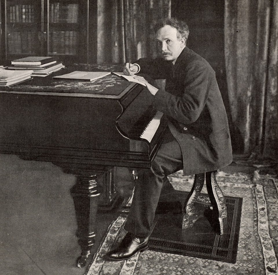 Posed photo of Richard Strauss at piano